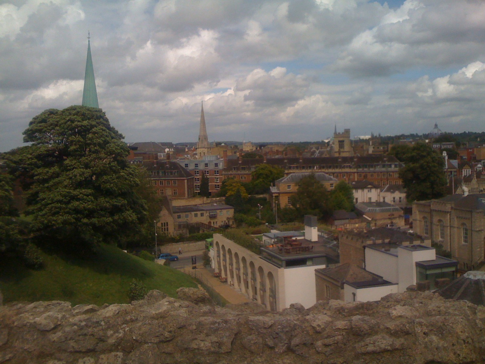 View from the top of St George's Tower at Oxford Castle. On the left is part of the motte, with the spire of Nuffield College library beyond. Ahead is St Peter's College, with the tower of the former parish church of St Peter-le-Bailey on the right. The spire in the centre is that of Wesley Memorial Methodist church.